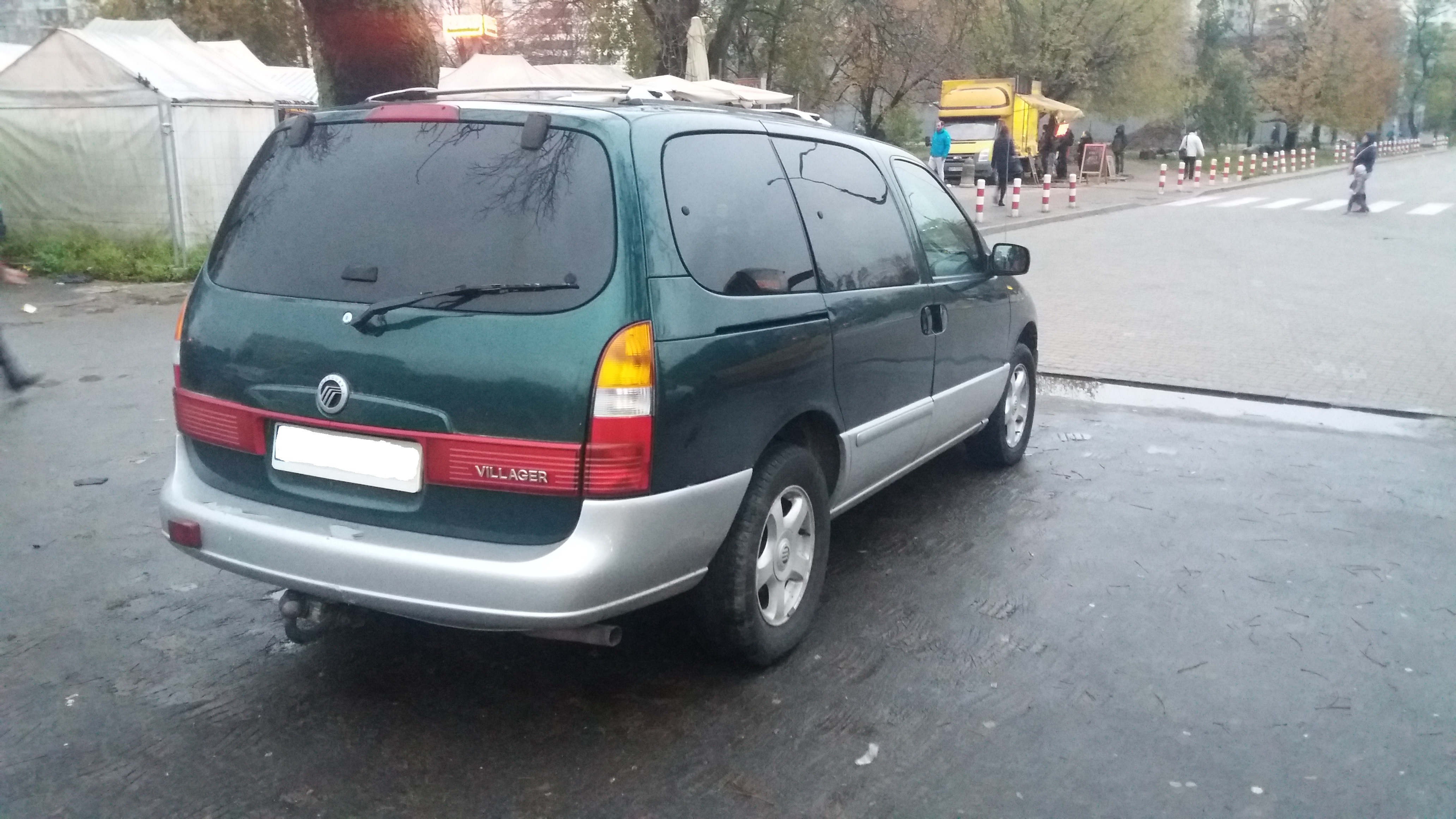 Mercury Villager in Warsaw